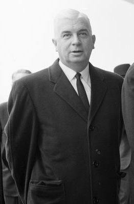 President John F. Kennedy and former president, General Dwight D. Eisenhower, attend the dedication ceremony for Dulles International Airport, named after the late Secretary of State, John Foster Dulles. Left to right: Governor of Virginia, Albertis S. Harrison, Jr.; President Kennedy (holding hat); General Eisenhower; former Administrator of the Federal Aviation Agency (FAA), General Elwood R. “Pete” Quesada; Director of the Bureau of National Capital Airports, G. Ward Hobbs. Chantilly, Virginia.